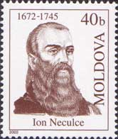 Stamp of Moldova